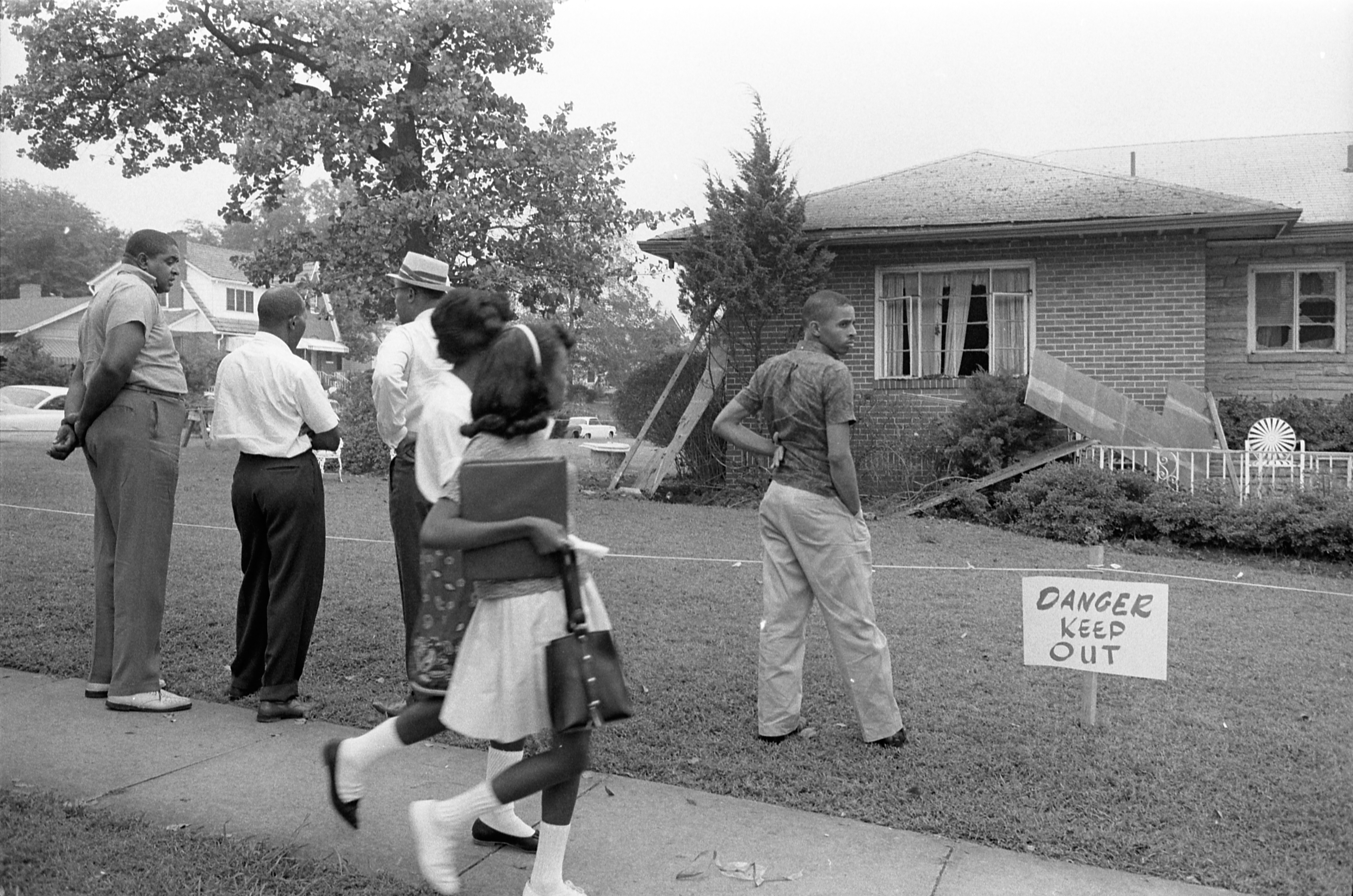 Group of African Americans viewing the bomb-damaged home of Ahfhrthur Shores, NAACP attorney, Birmingham, Alabama